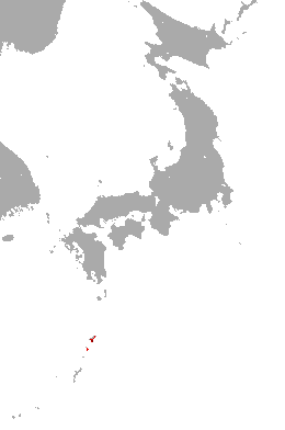 Amami Rabbit (Pentalagus furnessi) range